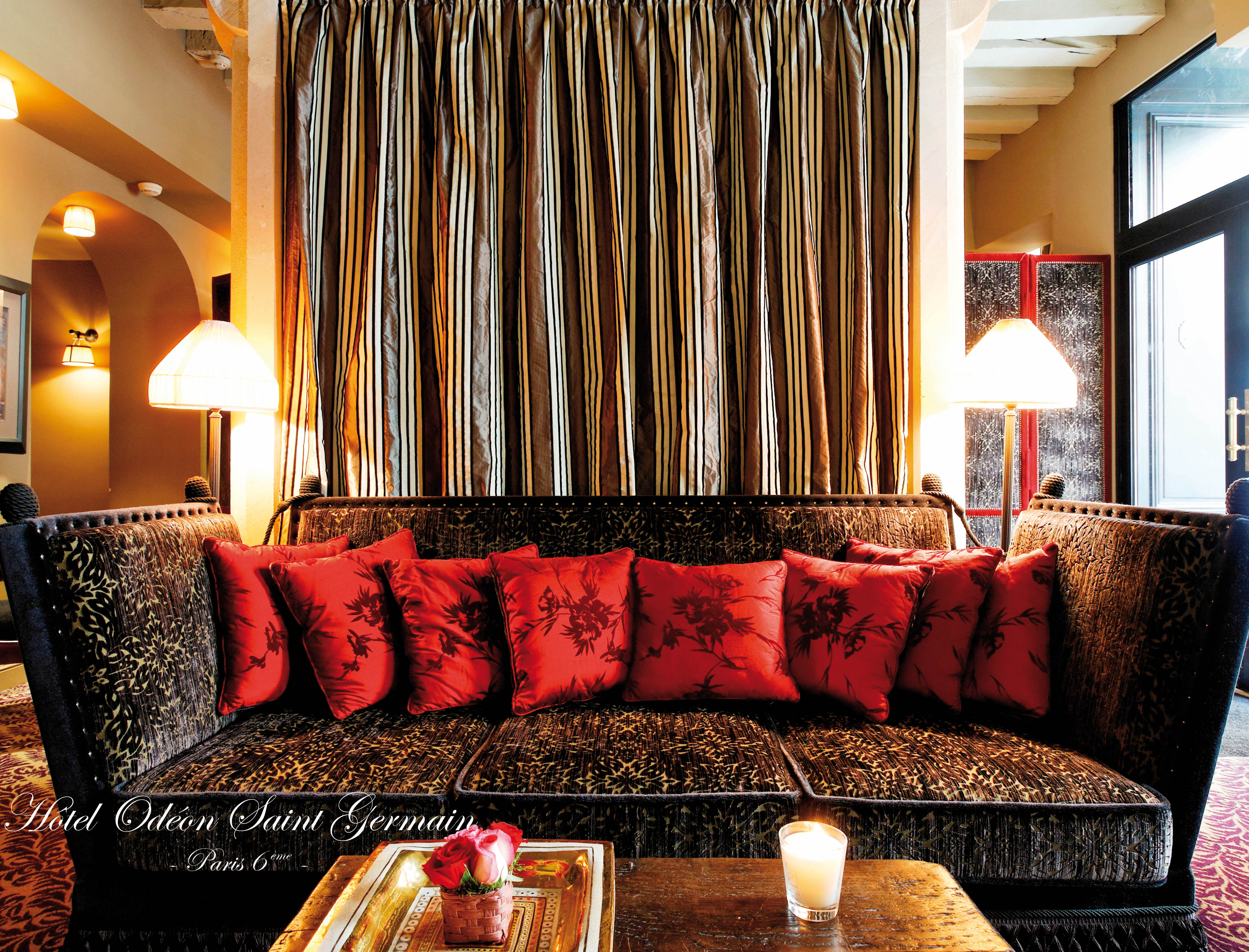 Lobby of the Hôtel Odéon Saint Germain, Paris